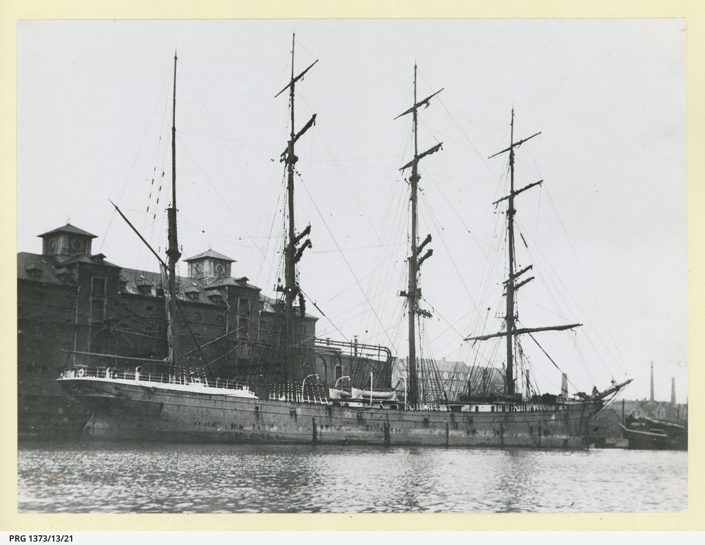 The four masted iron barque 'Glenorchy', 2229 tons, in an unidentified port [iron 4 mast ship, later barque 2229 tons. ON86224. 280.7 x 42.0 x 24.8. Built 1882 (8) Sunderland SB Co. Ltd. Sunderland. Owners: HL MacIntyre registered Liverpool, later Red Cross Shipping Co. Ltd (CT Bowring and Co) registered Liverpool. Became the Italian 'Fratelli Beverino'].